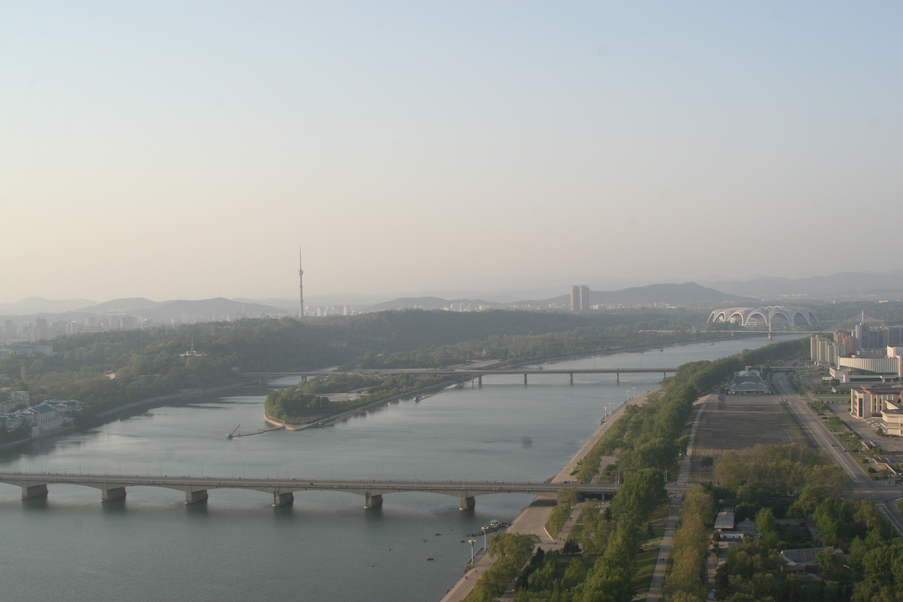 A view of Pyongyang. Facing north from the Juche Tower, Okryu Bridge and behind it Rungra Islet are visible. On the left is Moran Hill.